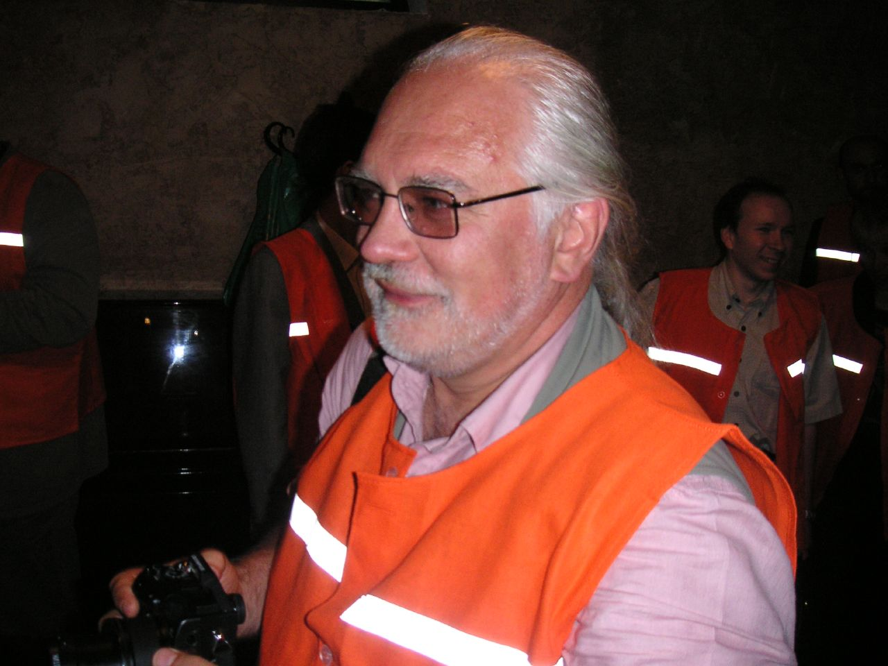 Andrey Sebrant.